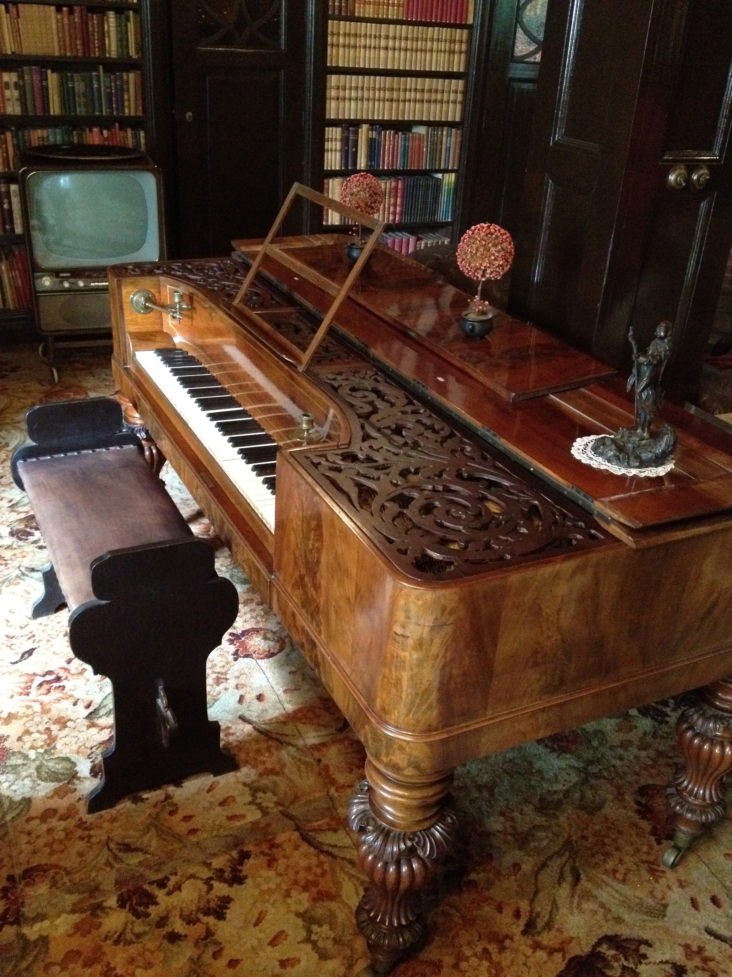 Piano Lille Mølle in Christianshavn, Copenhagen, Denmark